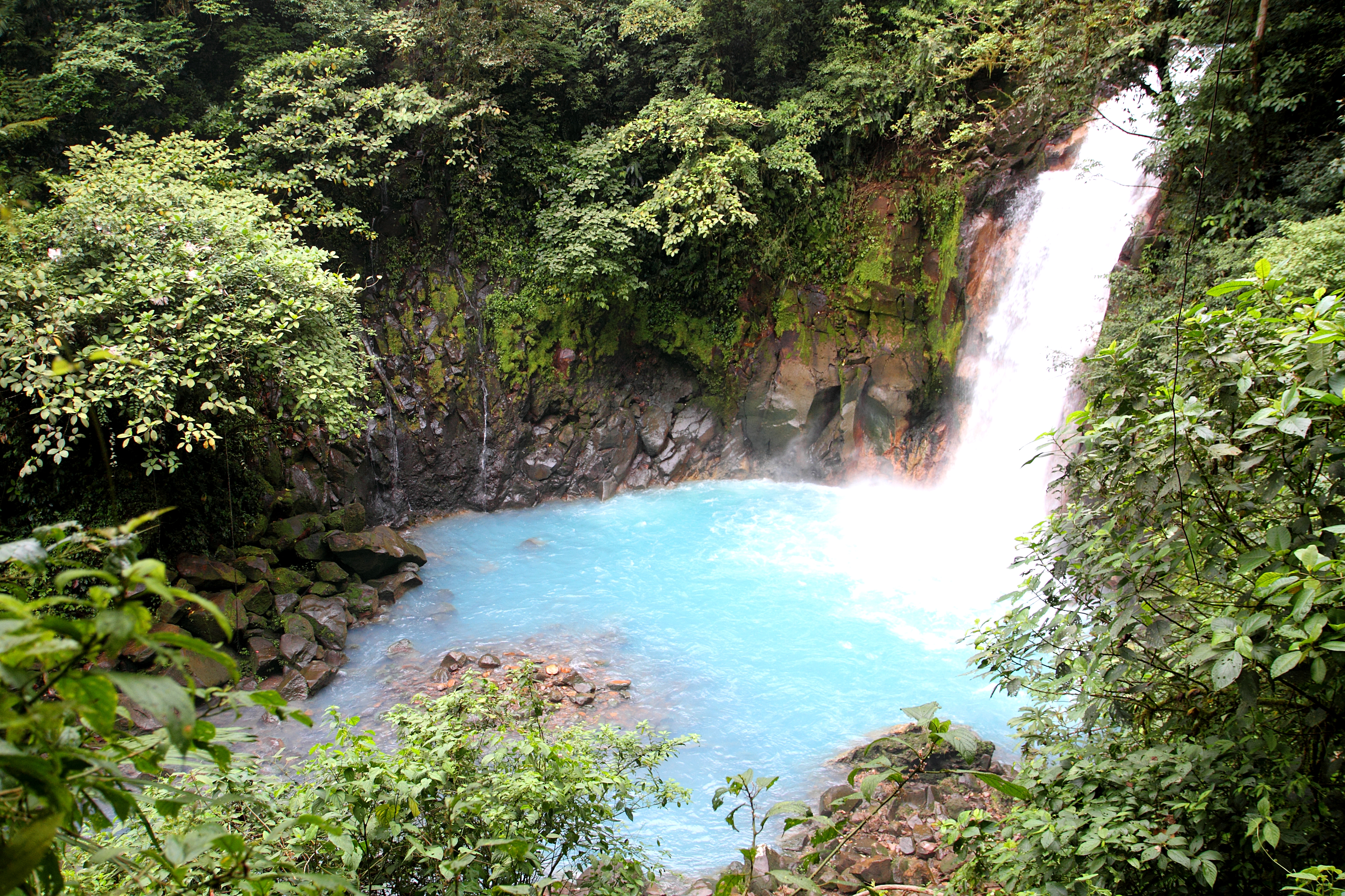 Celeste River fall, Tenorio National Park, Costa Rica.